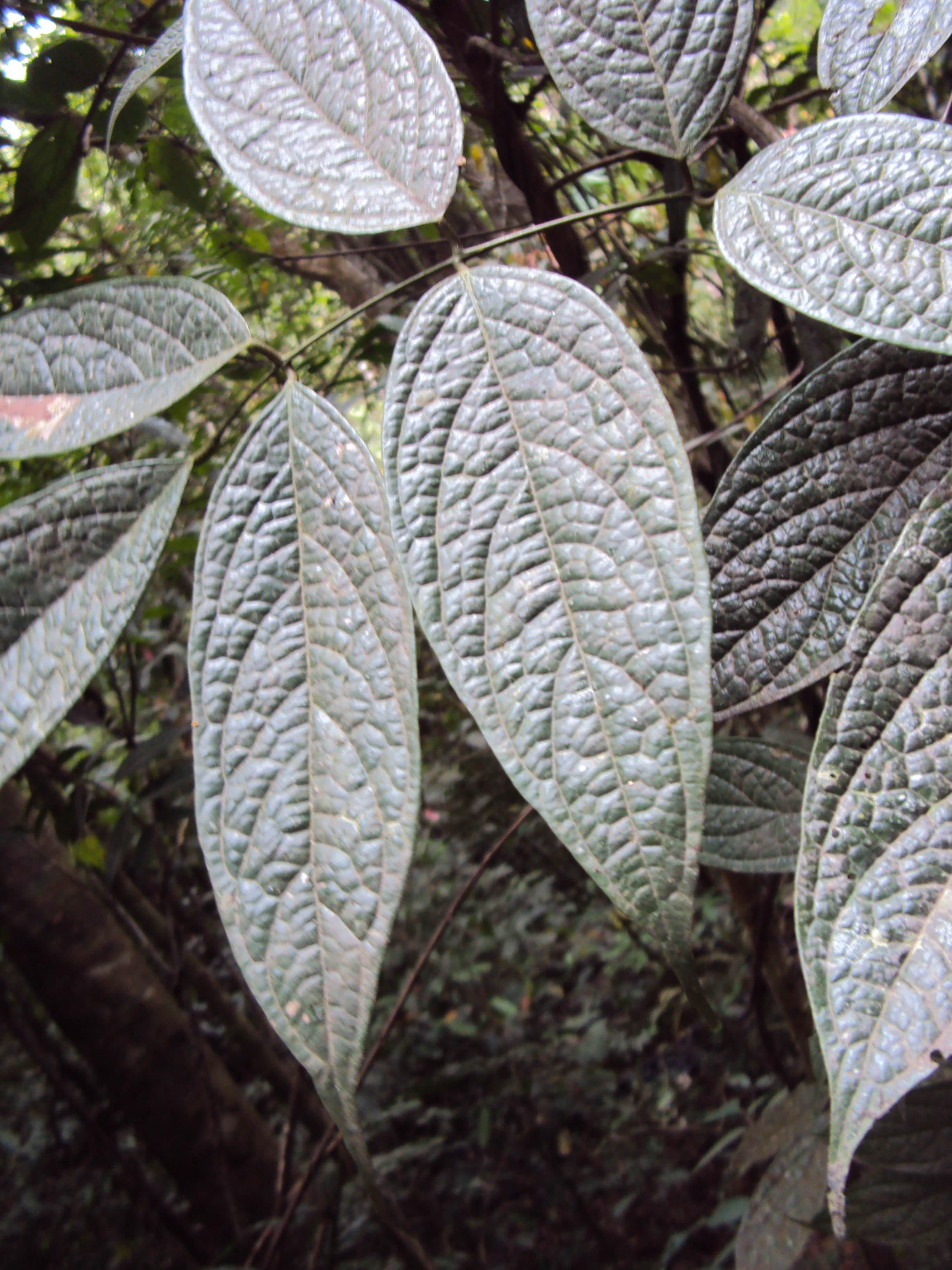 Kunstlaria keralensis